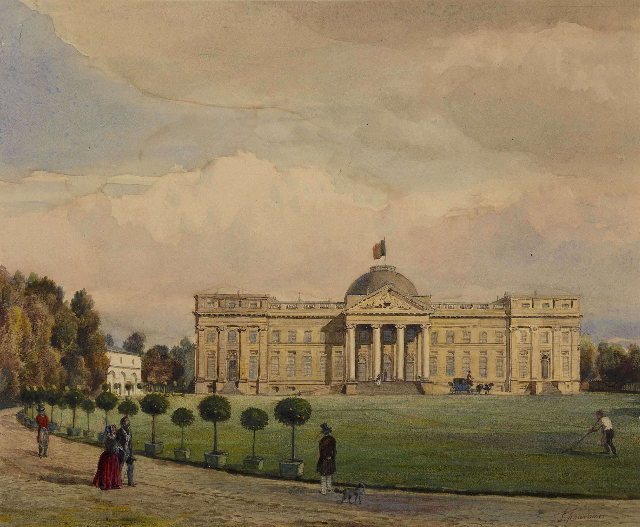 Aquarel of the main front of the Palace of Laeken by Théodore Fourmois